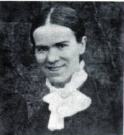 Teresa Helena Higginson Servant of God.Picture guess at 1875